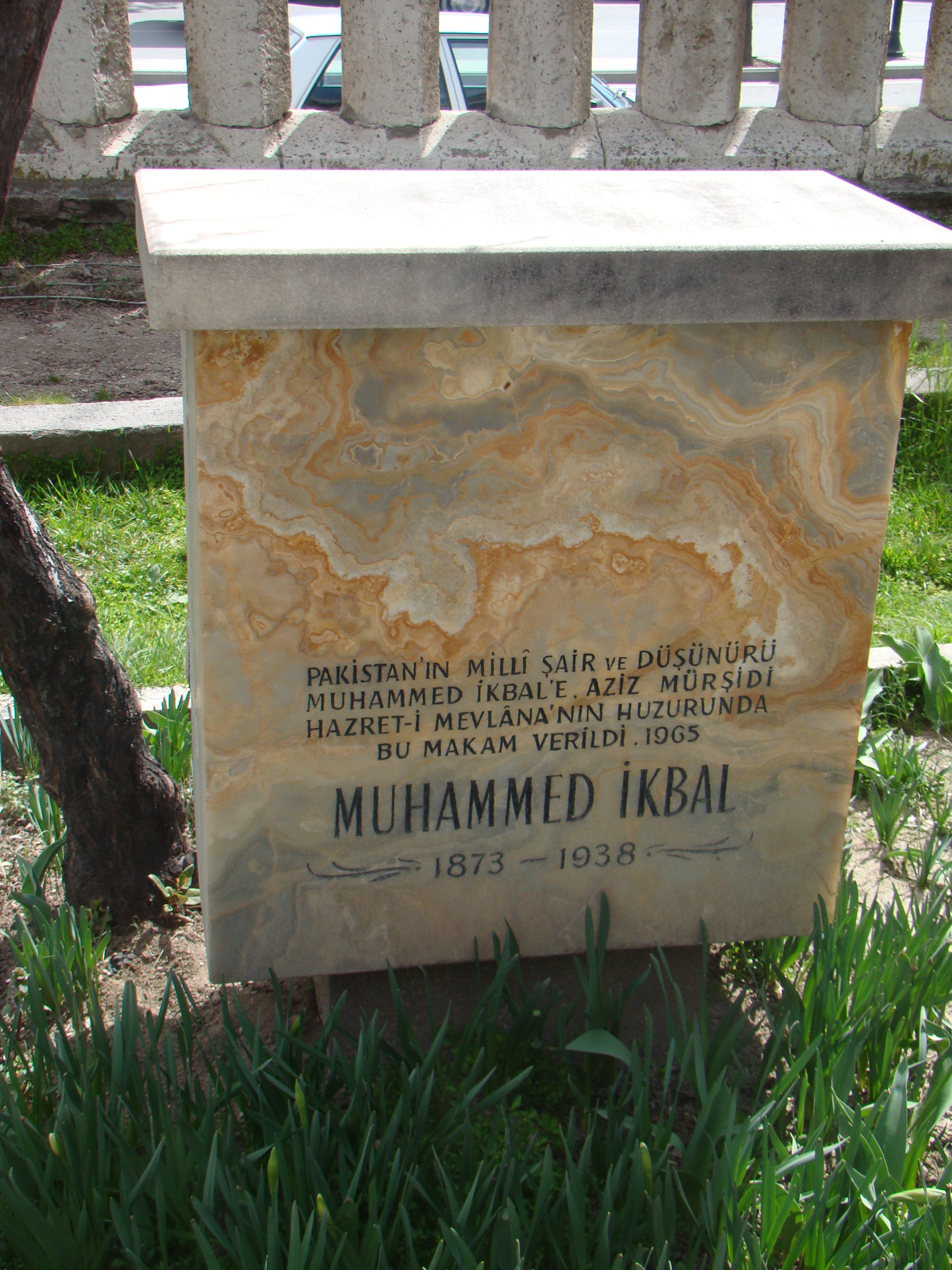 Monument for Muhammad Iqbal at the Mevlâna Museum — Konya, Central Anatolia, Turkey.